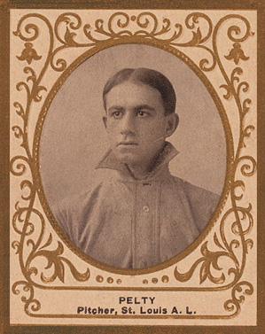 1909 Ramly baseball card of Barney Pelty.